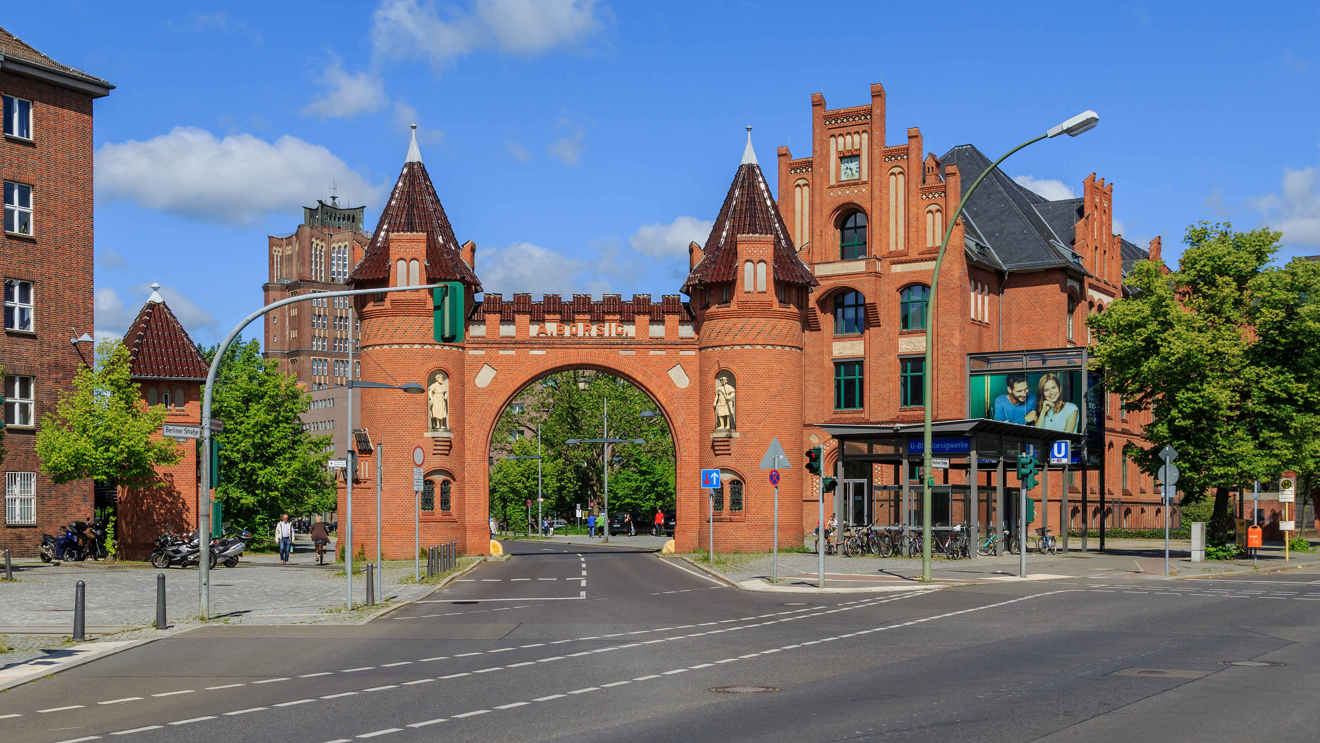 Former Borsig AG plant in Berlin (Germany)